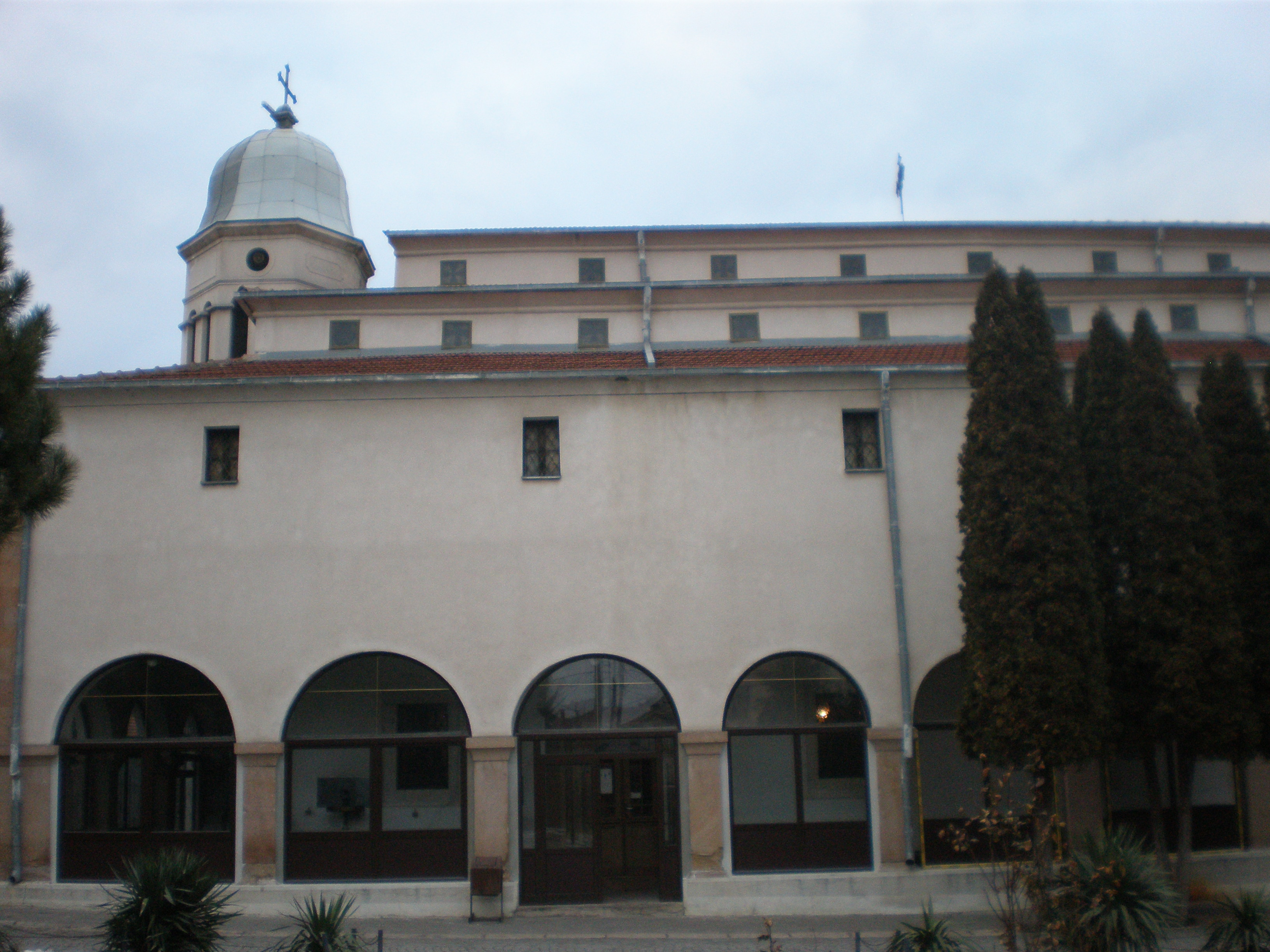 The church of St. Nicolas in the center of Kumanovo, Macedonia